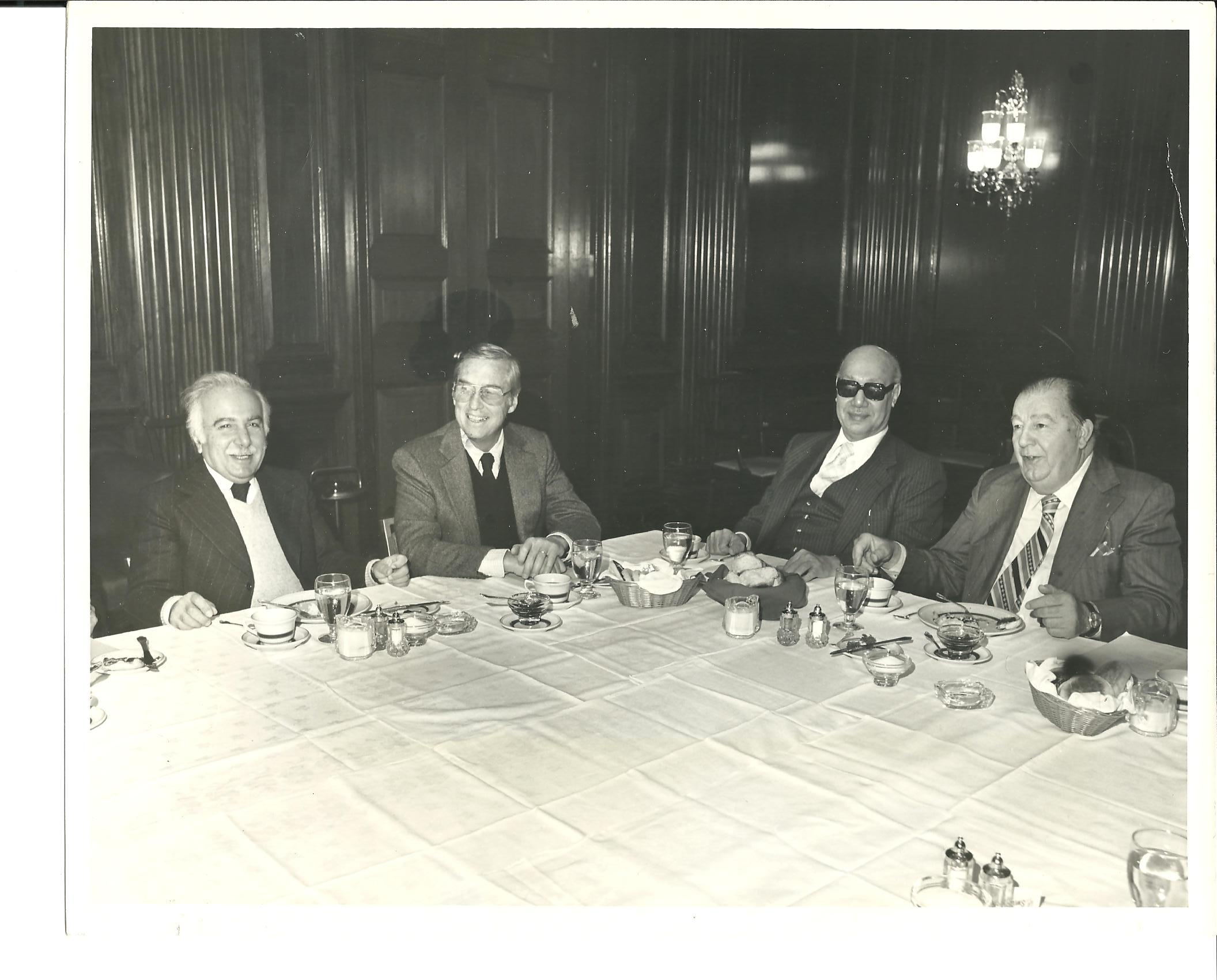 Senate Breakfast hosted by Senate Jennings Randolph for Arab leaders November 16, 1979 US Capitol